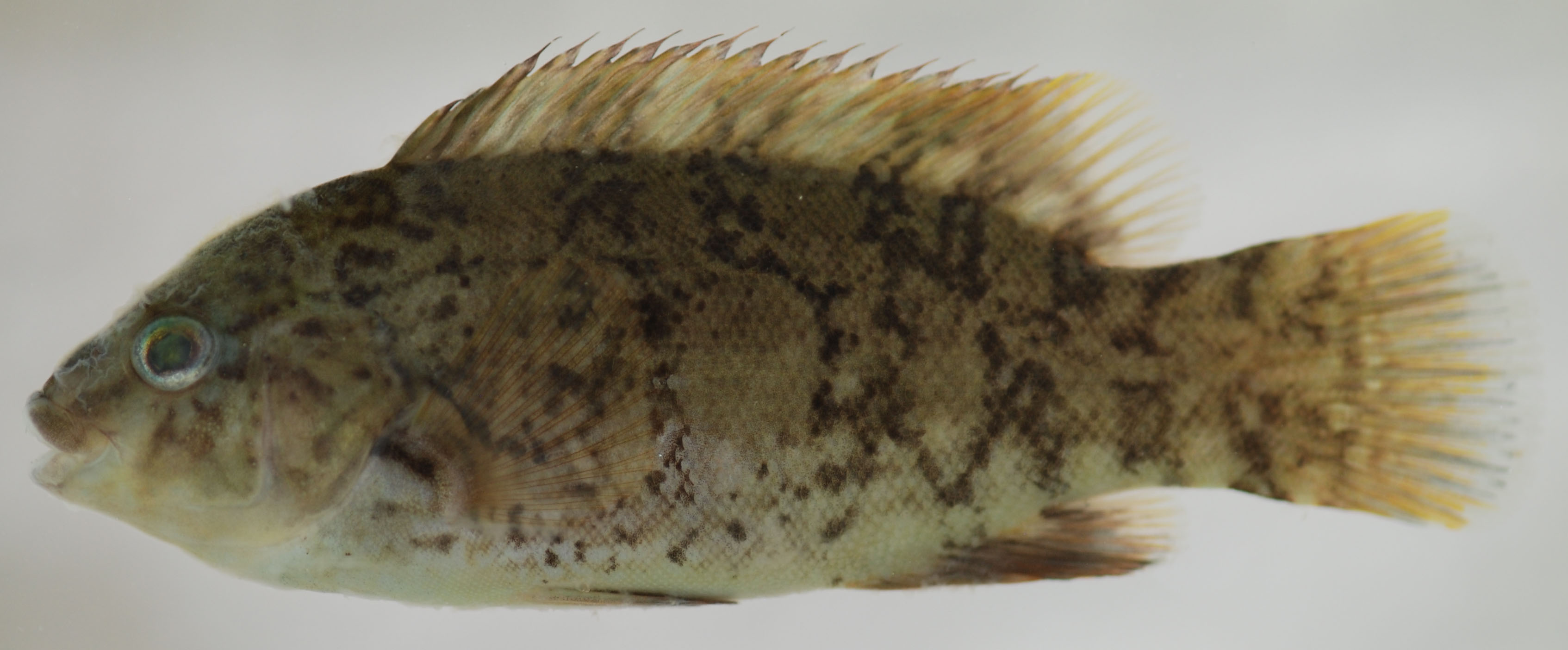 tautog, Tautoga onitis, 68mm SL. Cobb Bay, Northampton County, VA - 10/19/14. Photo by Robert Aguilar, Smithsonian Environmental Research Center.